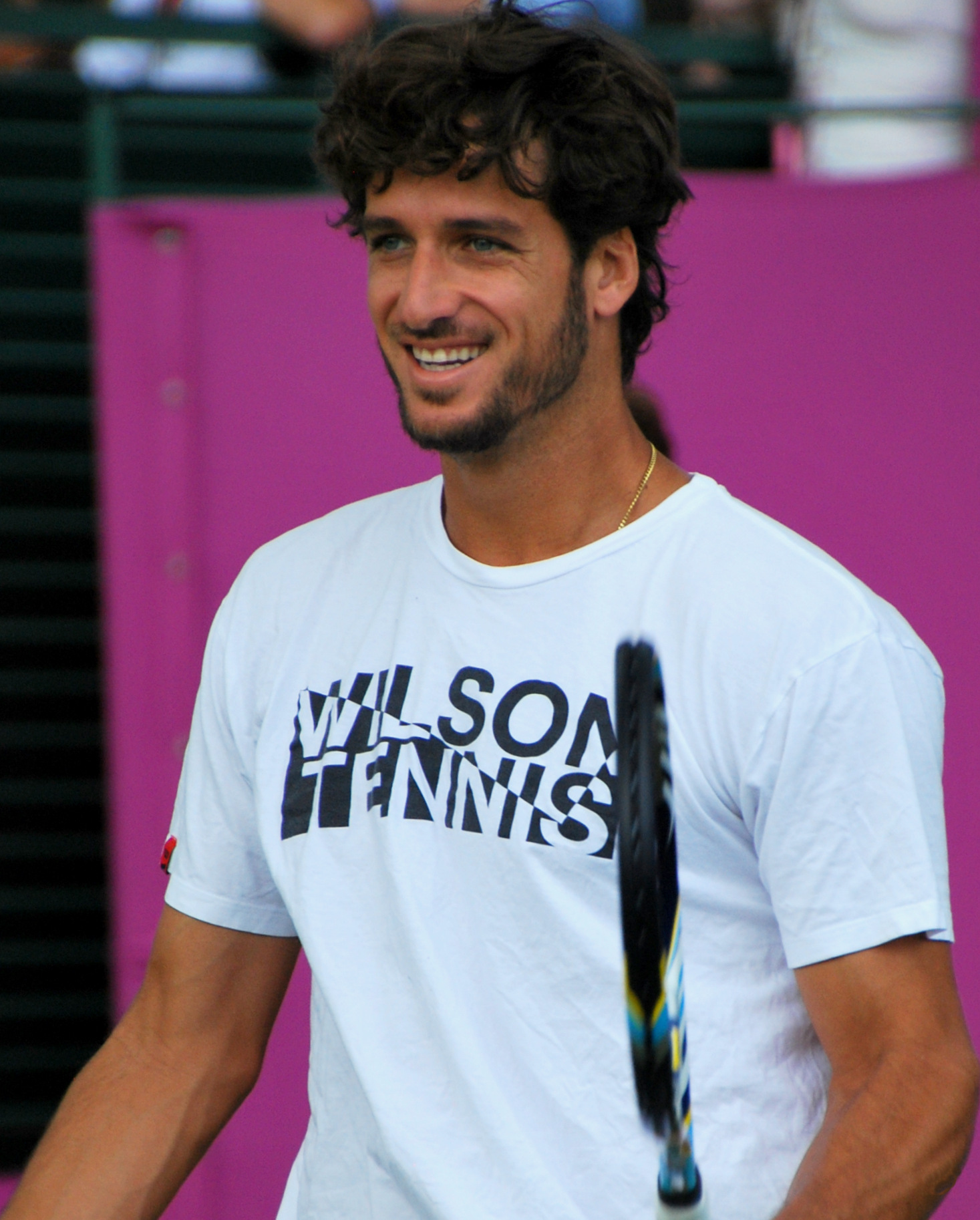 Feliciano Lopez on the practice court.